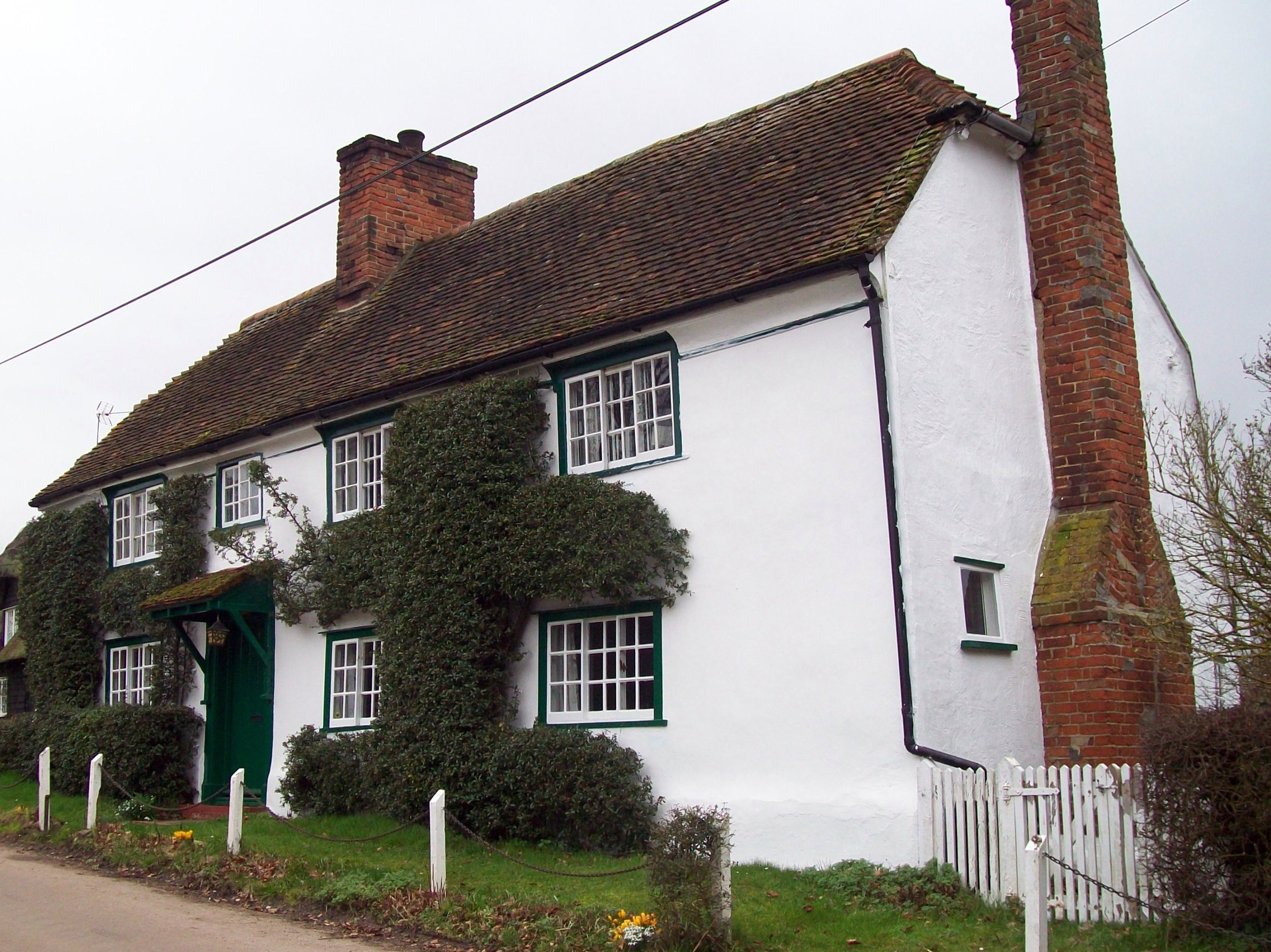 Steen Cottage, Nasty, Hertfordshire, 25 February 2011. A Grade II listed building built in the 16th or early 17th century.[1]